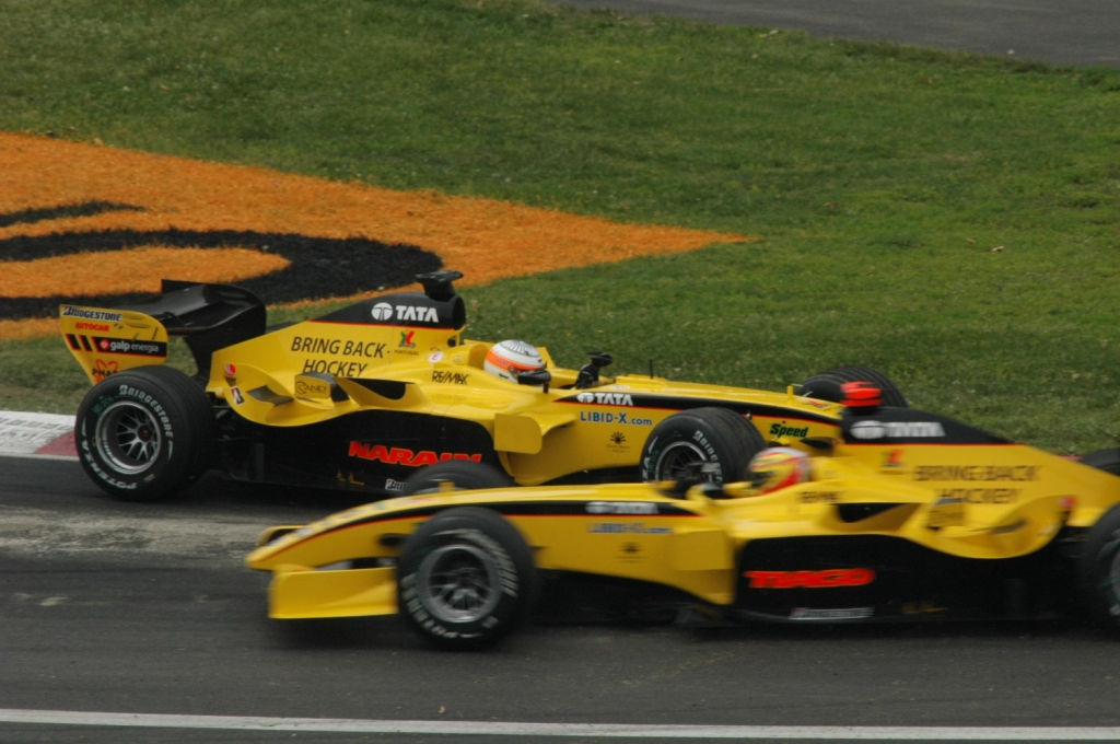 Narain Karthikeyan spins during the 2005 Canadian Grand Prix and is passed by his Jordan team-mate, Tiago Monteiro (foreground).